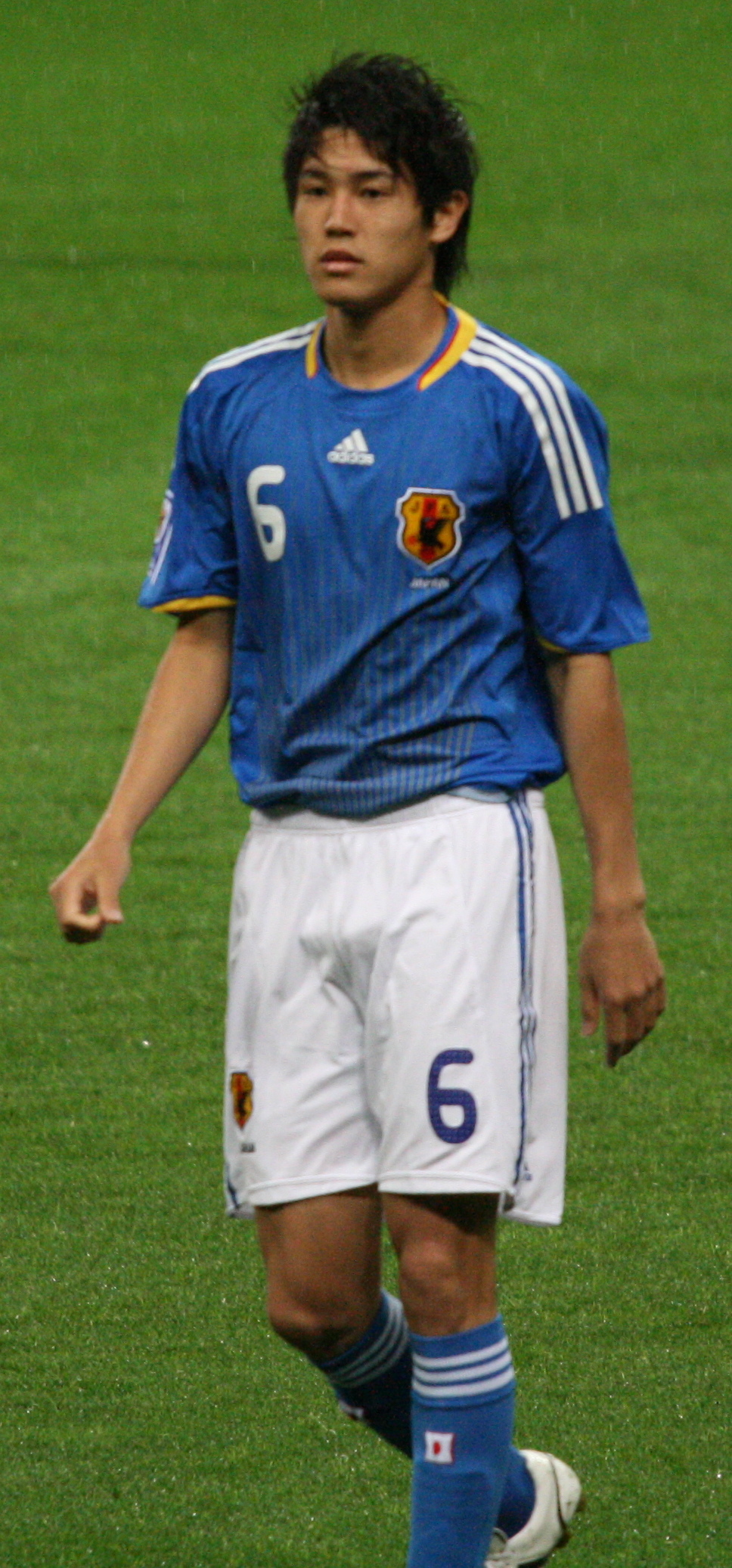 Atsuto Uchida, during Japan's world cup qualifier against Bahrain on June 22, 2008